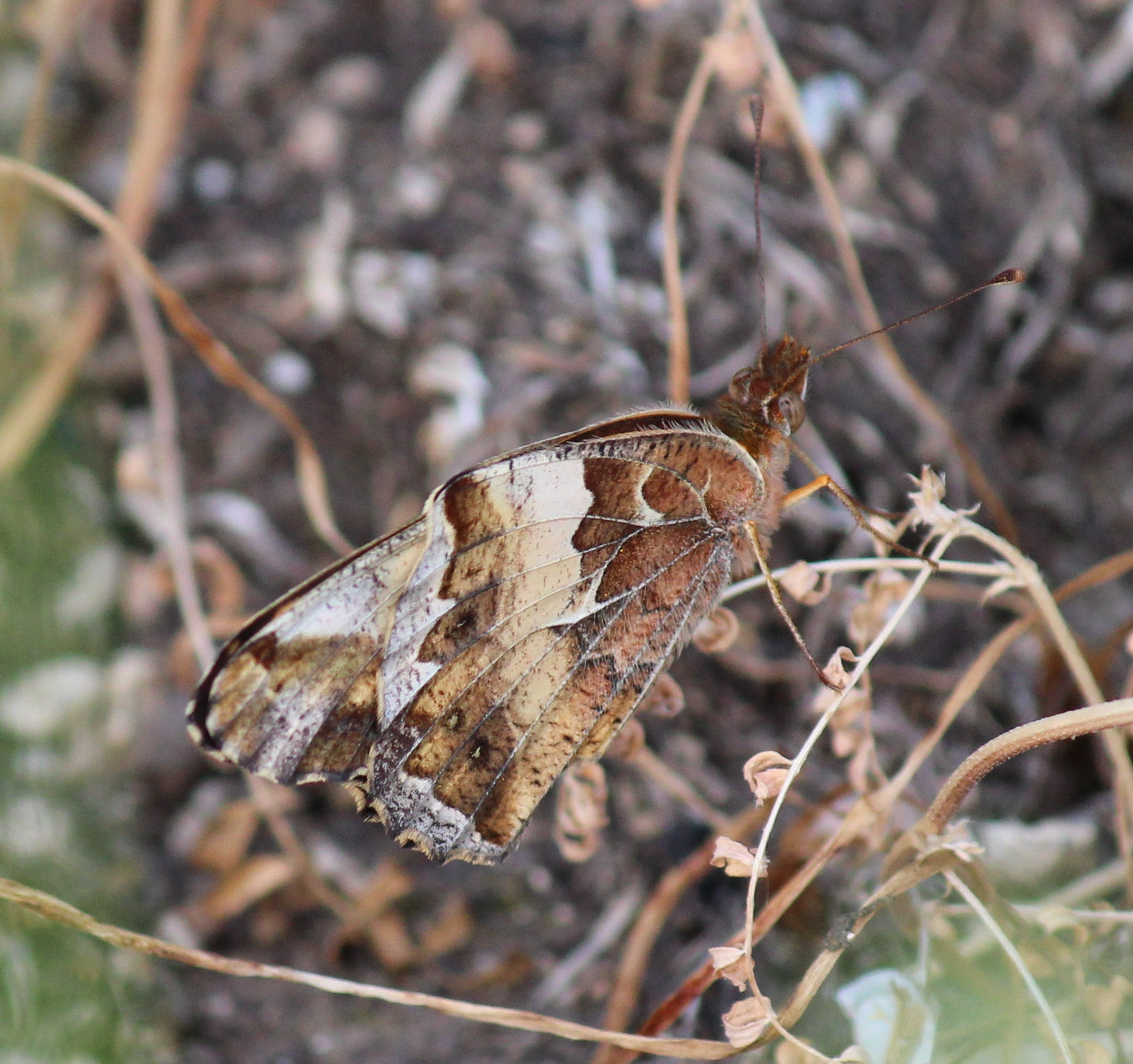 Variegated Fritillary photographed in San Antonio, Texas